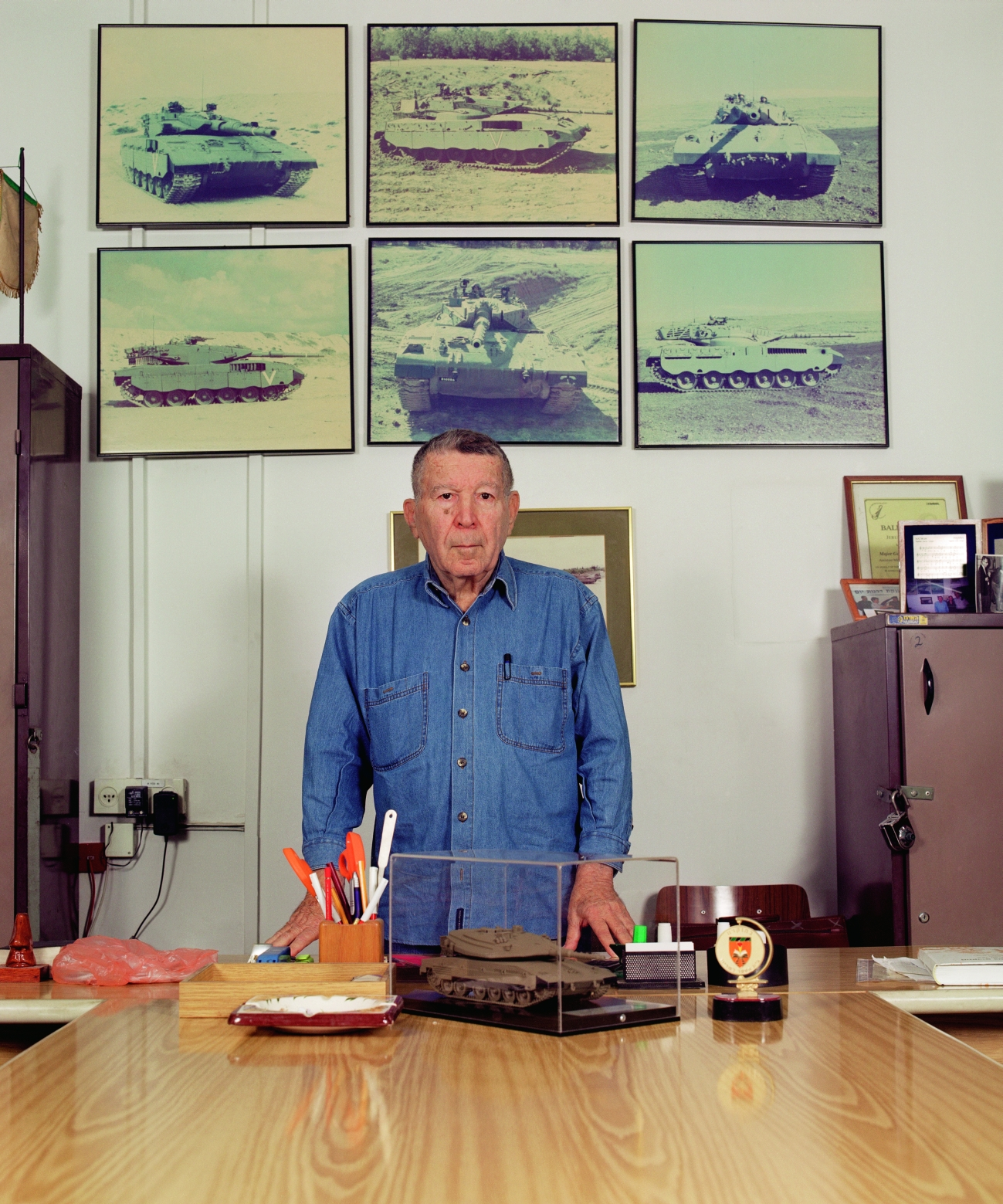 Art of Israel